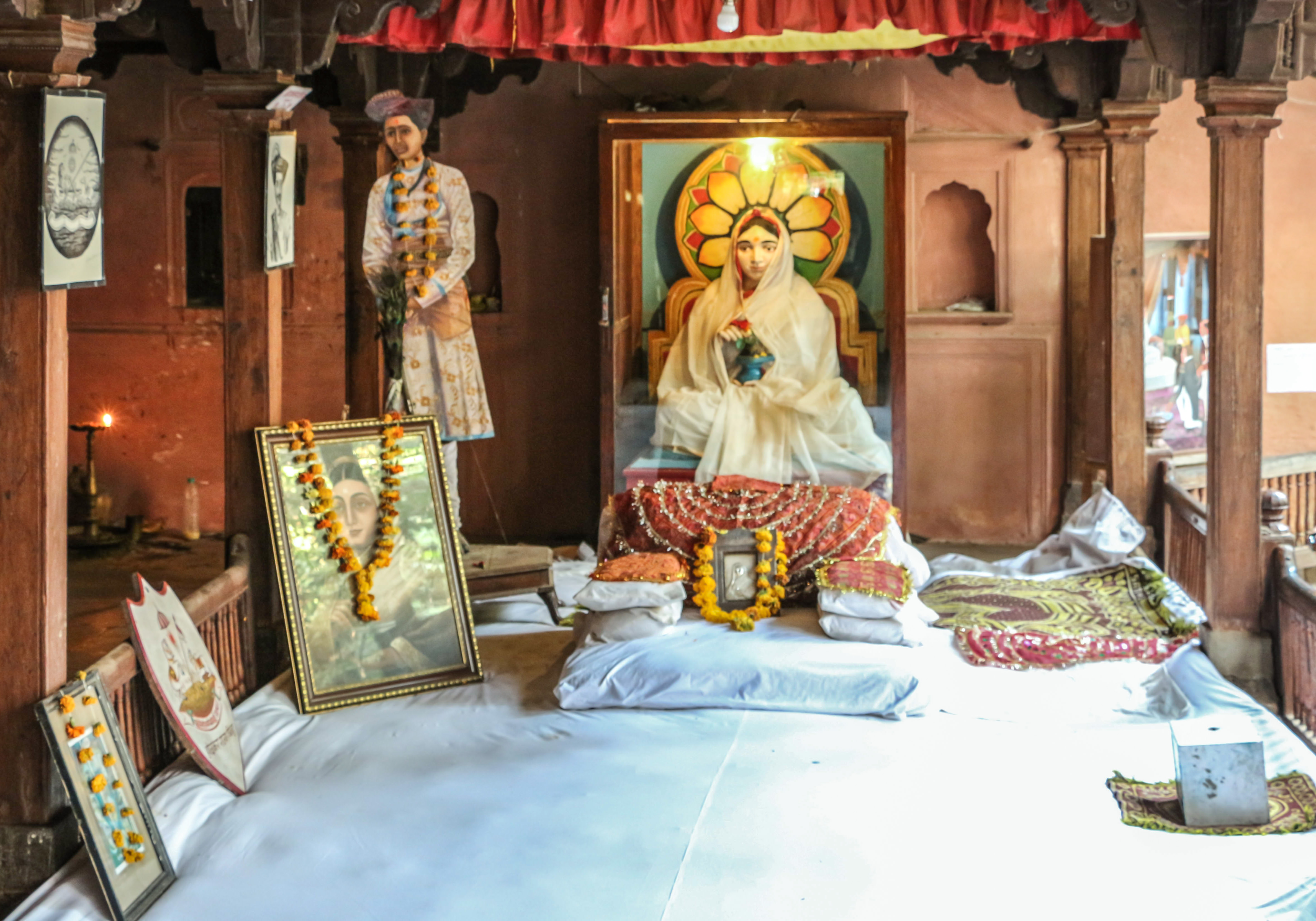 Statue of Ahilya Bai Holkar in the Rajwada (royal palace), Maheshwar, India